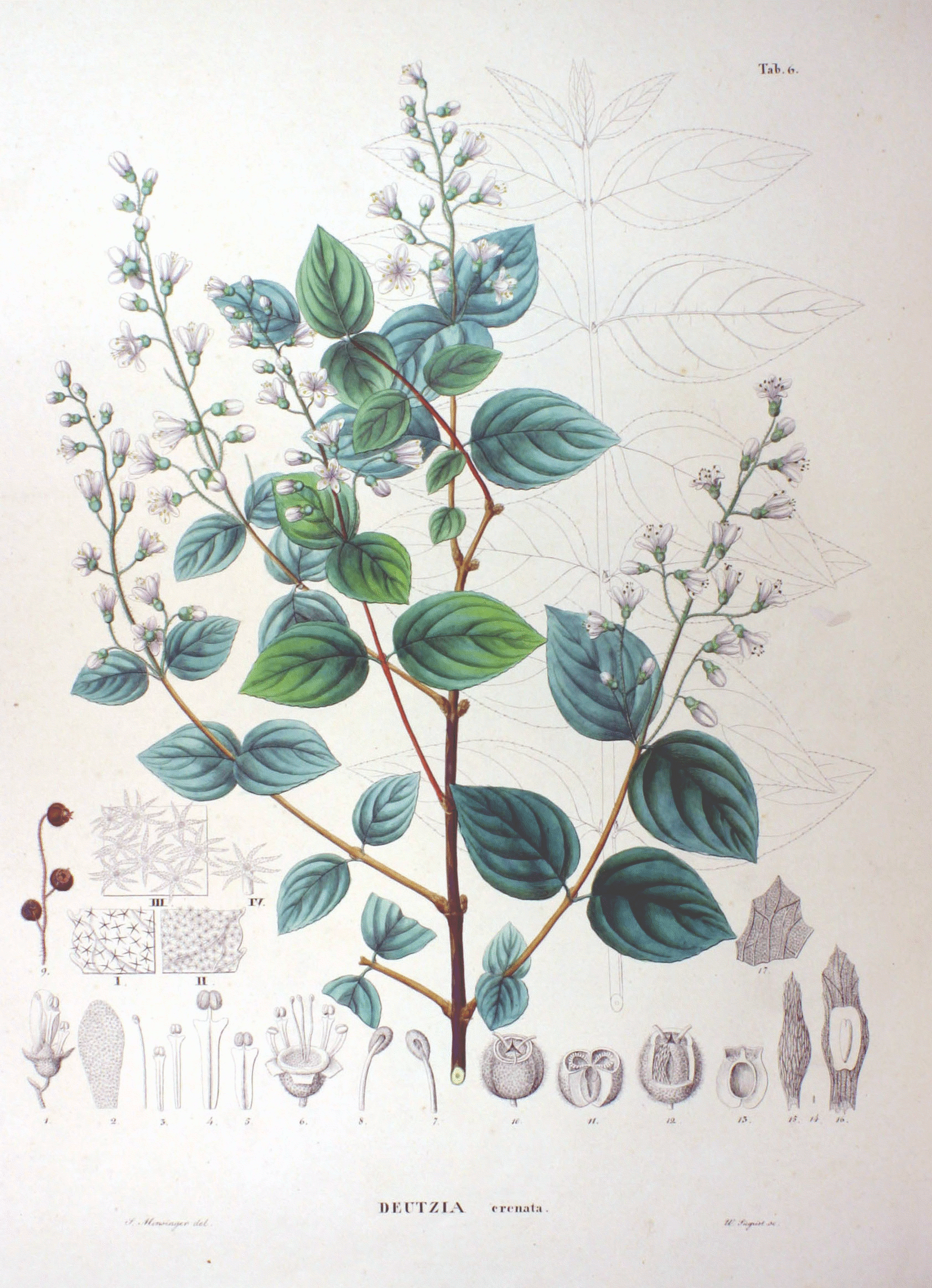 Deutzia crenata Plate from book